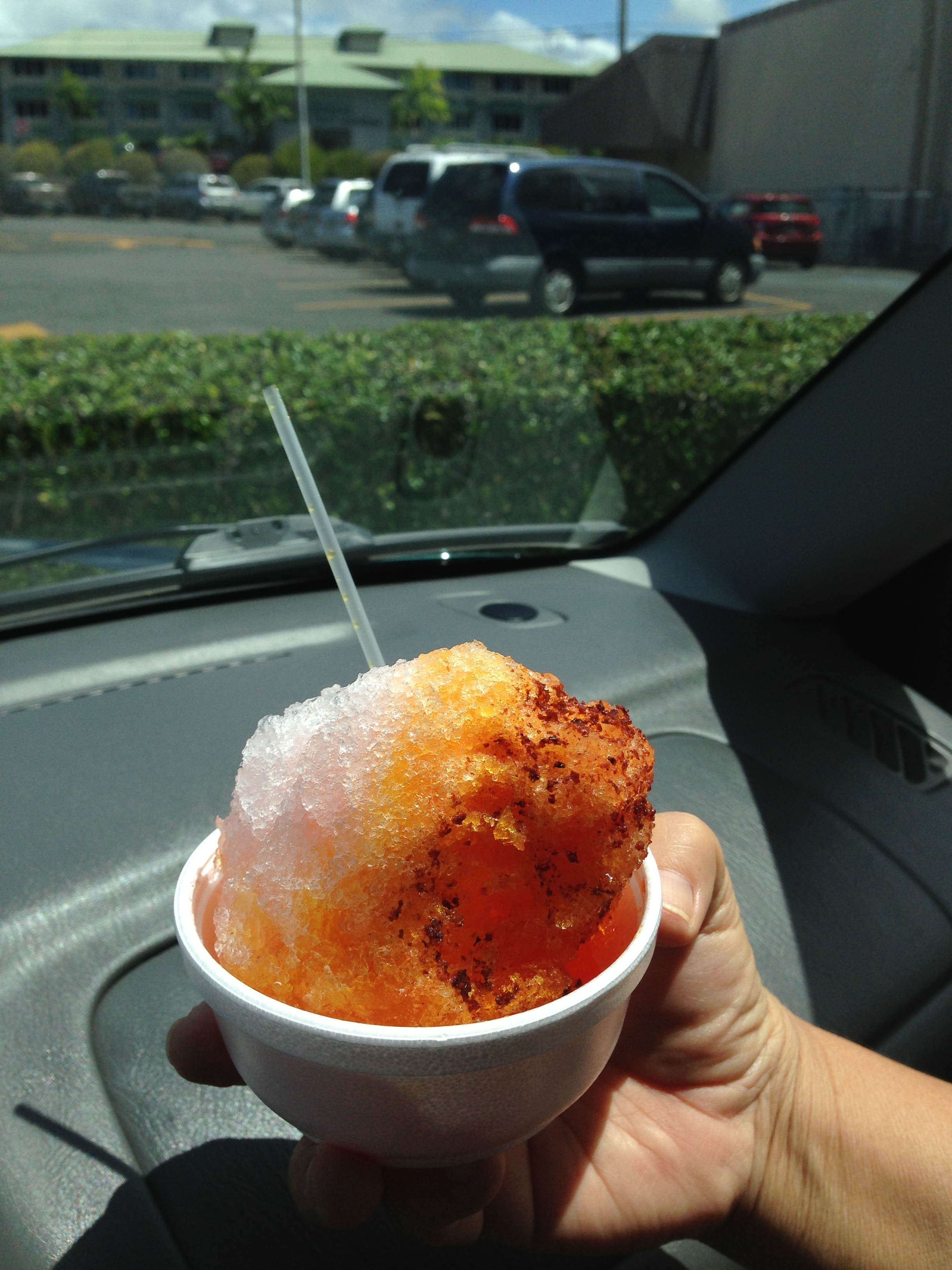 Ice Shave from Kawate Seed Shop in Hilo, Hawai'i